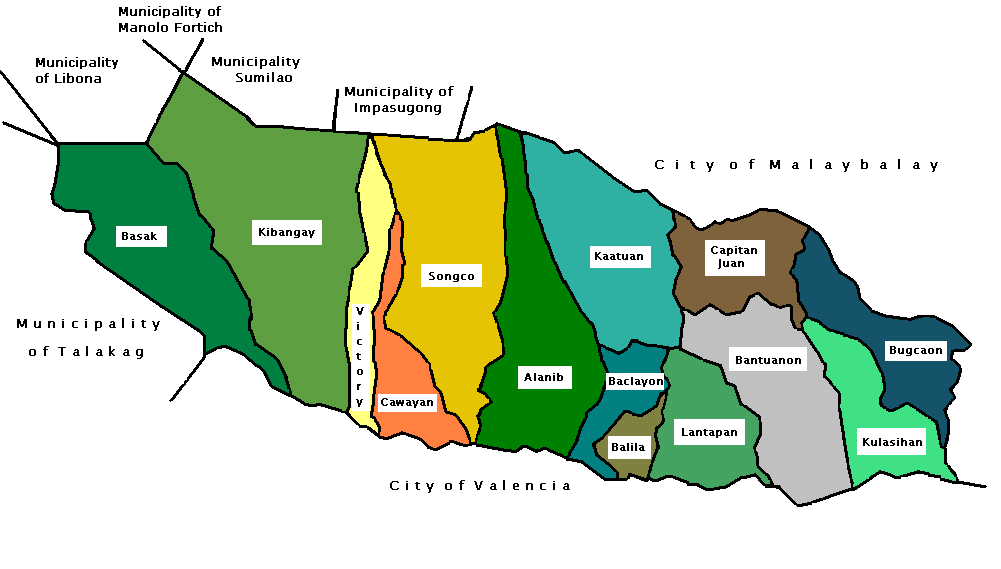 Political map of the municipality of Lantapan, Bukidnon